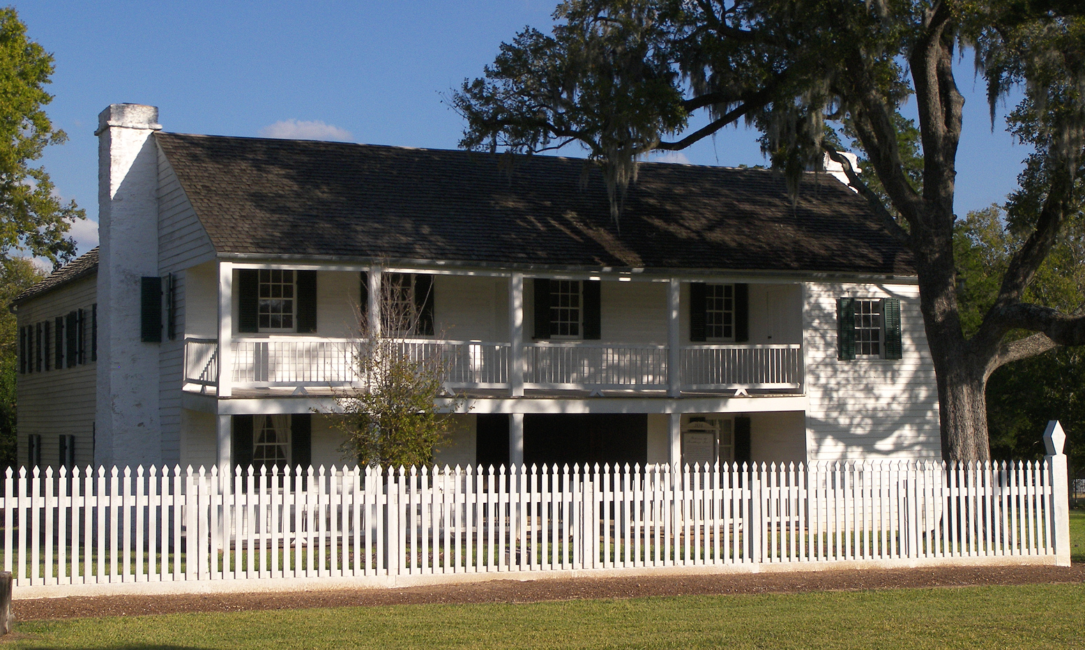 The Fanthorp Inn State Historic Site in Anderson, Texas, United States. The structure was added to the National Register of Historic Places on March 15, 1974 as part of the Anderson Historic District.